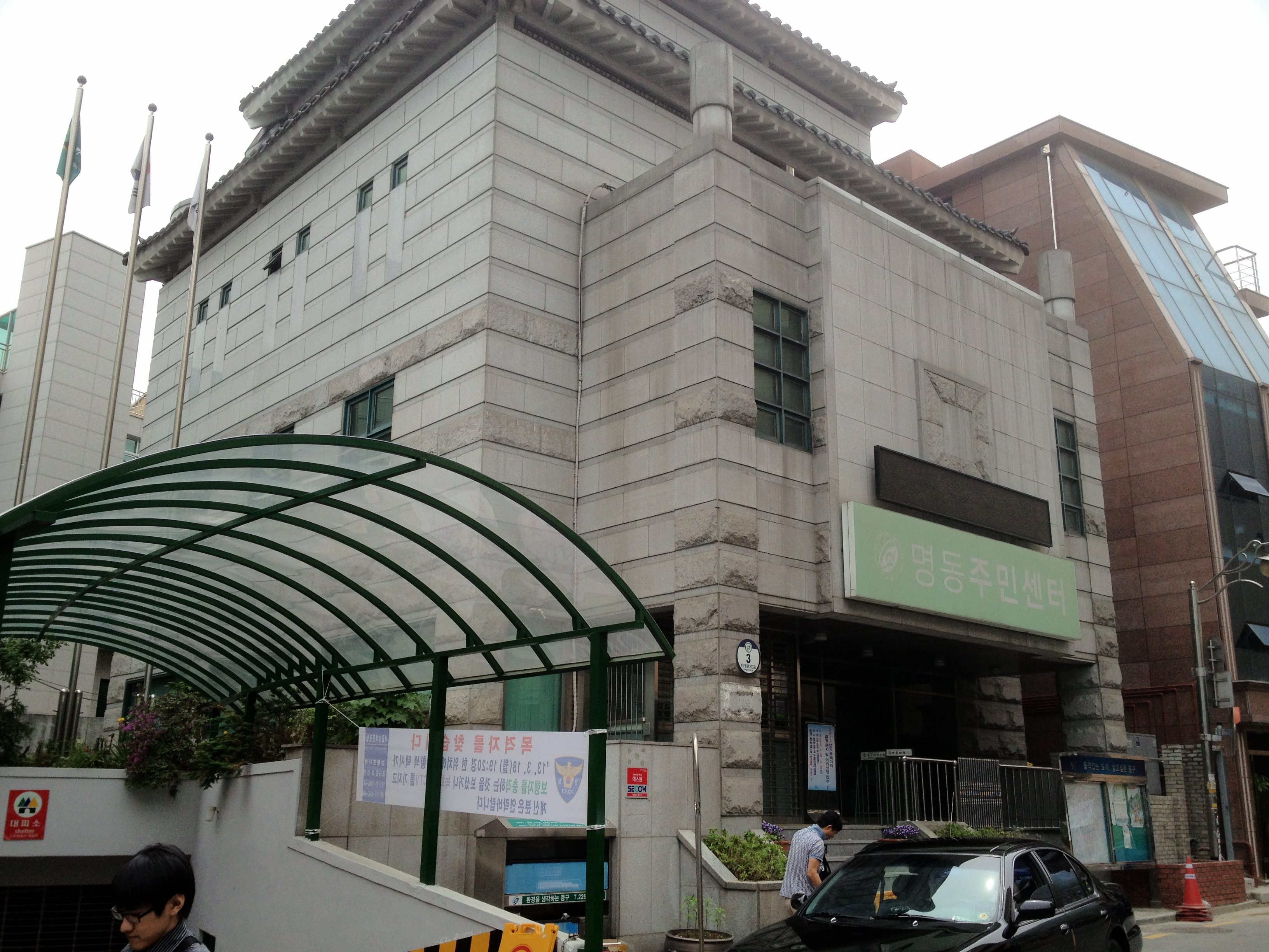 Myeong-dong Comunity Service Center(Jung-gu)